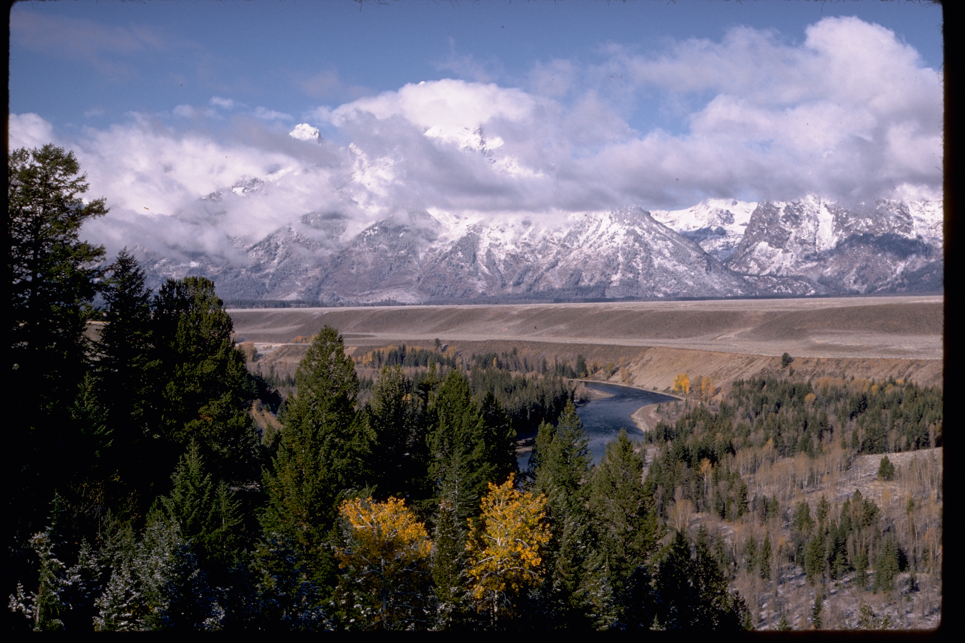 Location Grand Teton National Park and John D. Rockefeller, Jr. Memorial Parkway Description Grand Teton National Park preserves a spectacular landscape rich with majestic mountains, pristine lakes and extraordinary wildlife. The abrupt vertical rise of the jagged Teton Range contrasts with the horizontal sage-covered valley and glacial lakes at their base, creating world-renowned scenery that attracts nearly four million visitors per year.